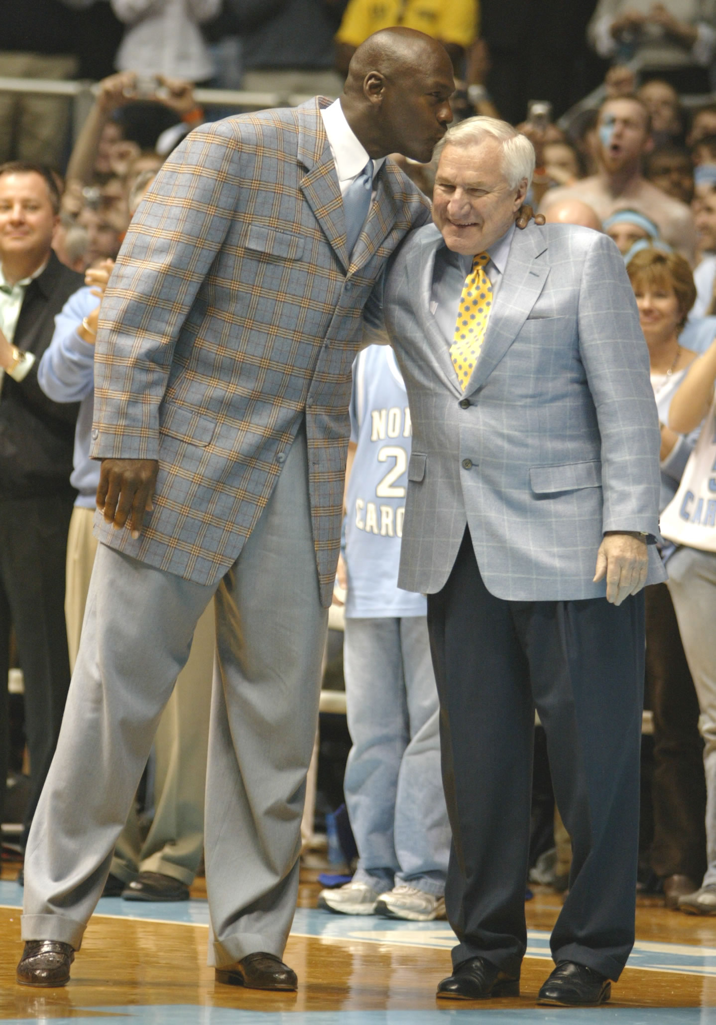 Michael Jordan and Dean Smith photo at UNC game Feb. 10, 2007